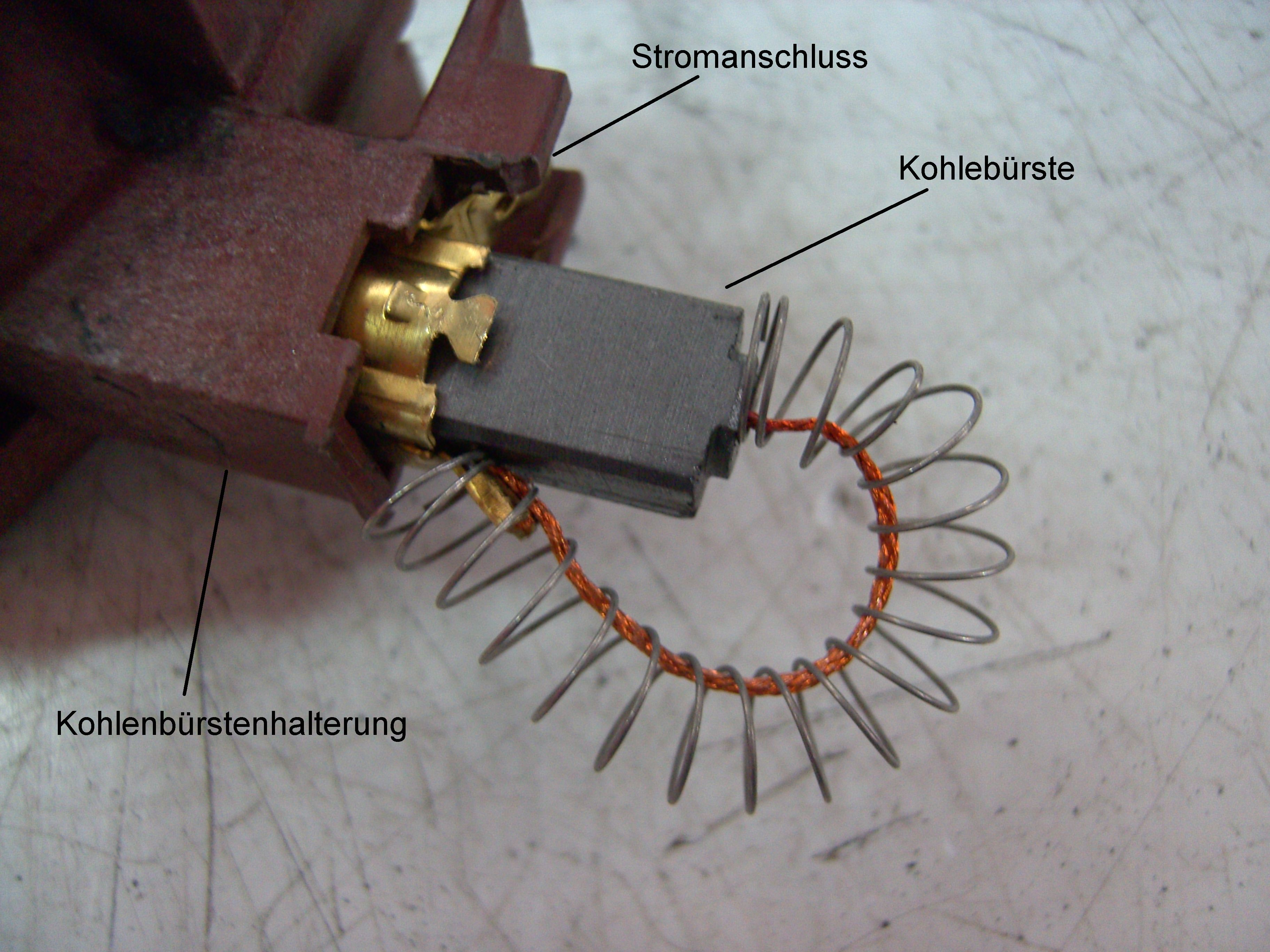 Carbon Brush Universal motor of a vacuum cleaner